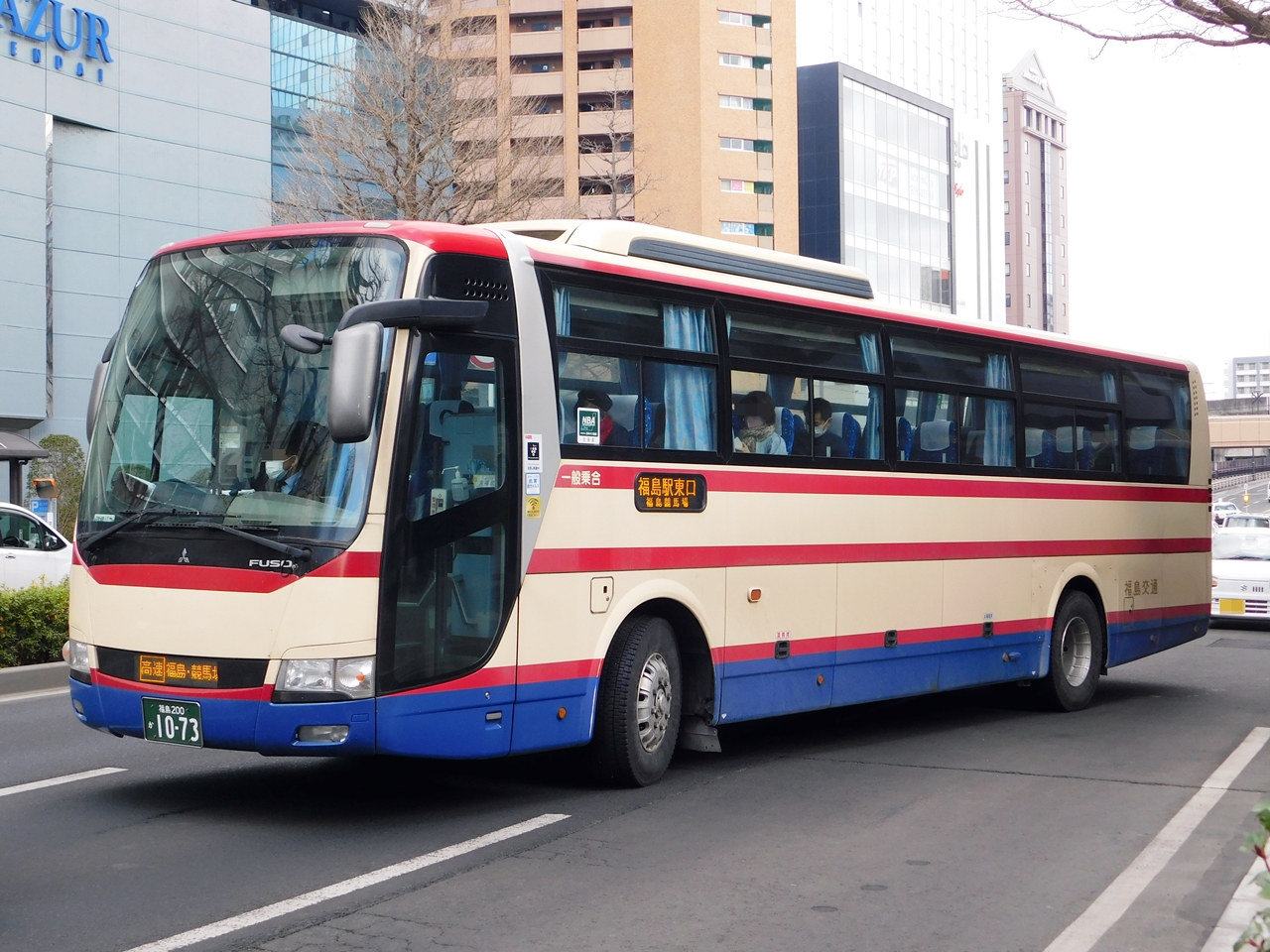 Fukushima kotsu(Fukushima pref.) Mitsubishi Fuso Aero Ace(BJG-MS96JP) Highwaybus Fukushima-Sendai